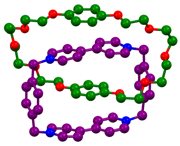 Rotaxane as described in doi 10.1002/anie.198913961